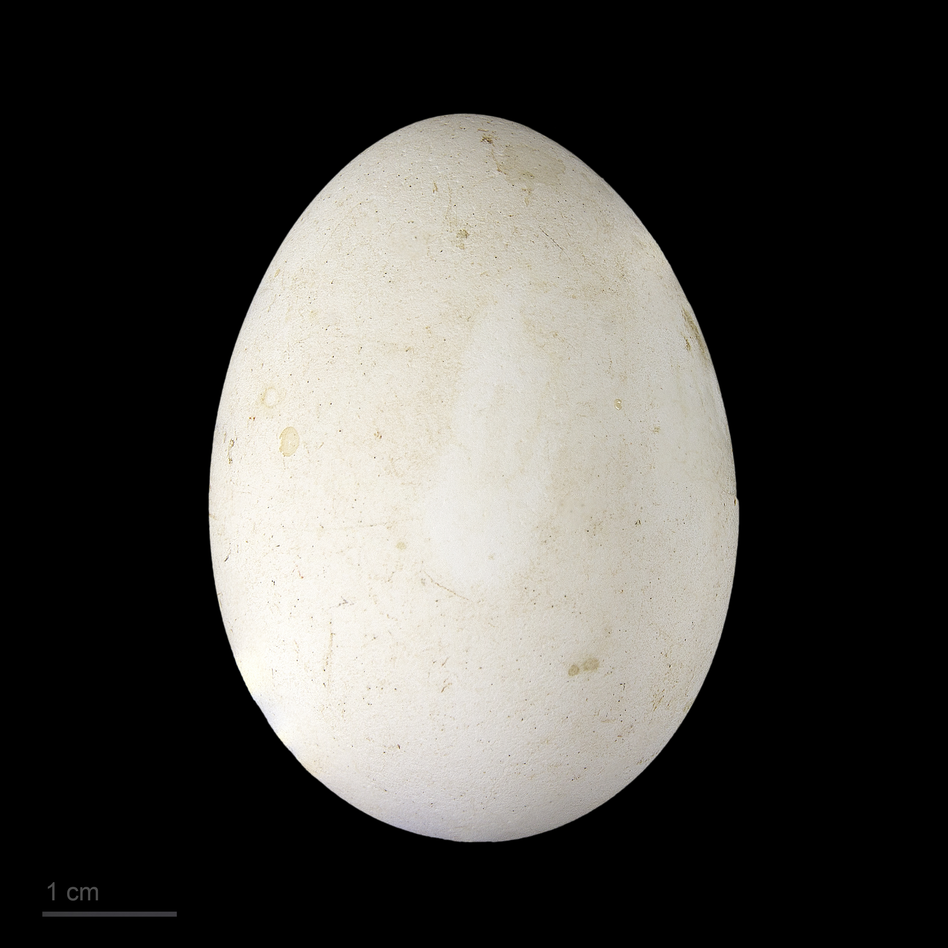 Eggs of slender-billed prion collection of Jacques Perrin de Brichambaut.